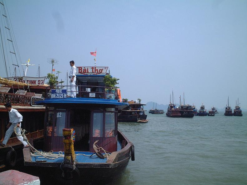 Ha Long Bay see